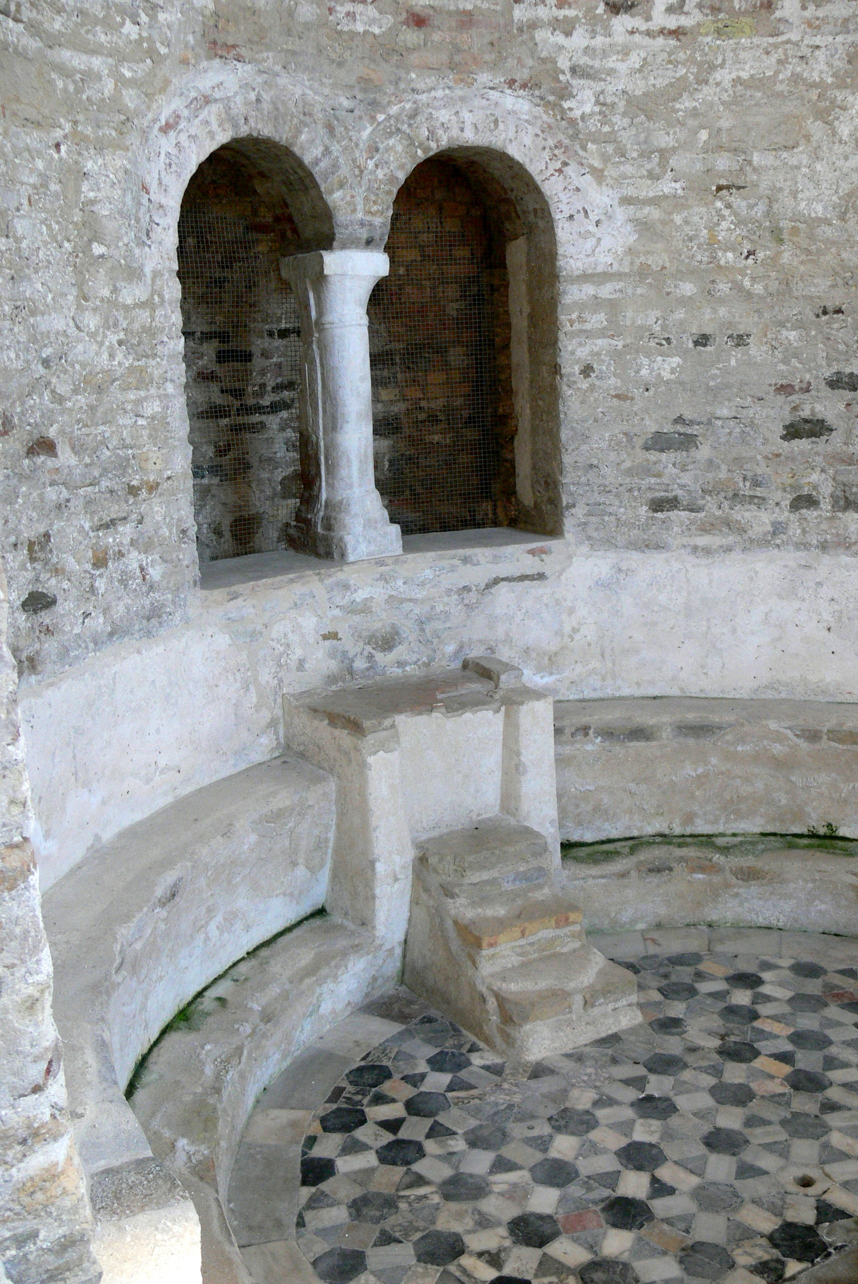 Grado, Italy. Santa Maria delle Grazie: Apse ( 5th century ) with bishop´s throne and seats for priests.